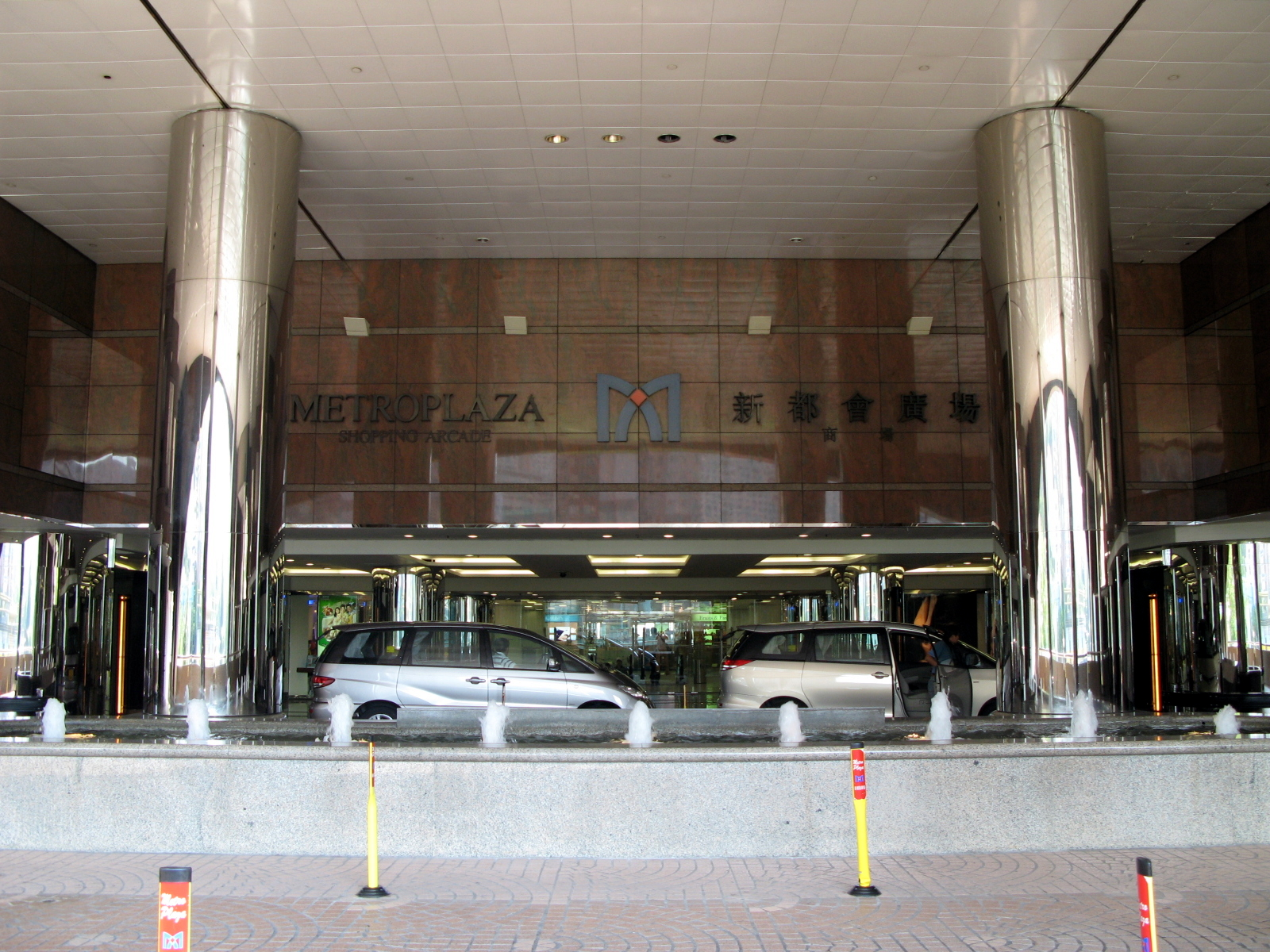 Metro Plaza Office Tower Enterance